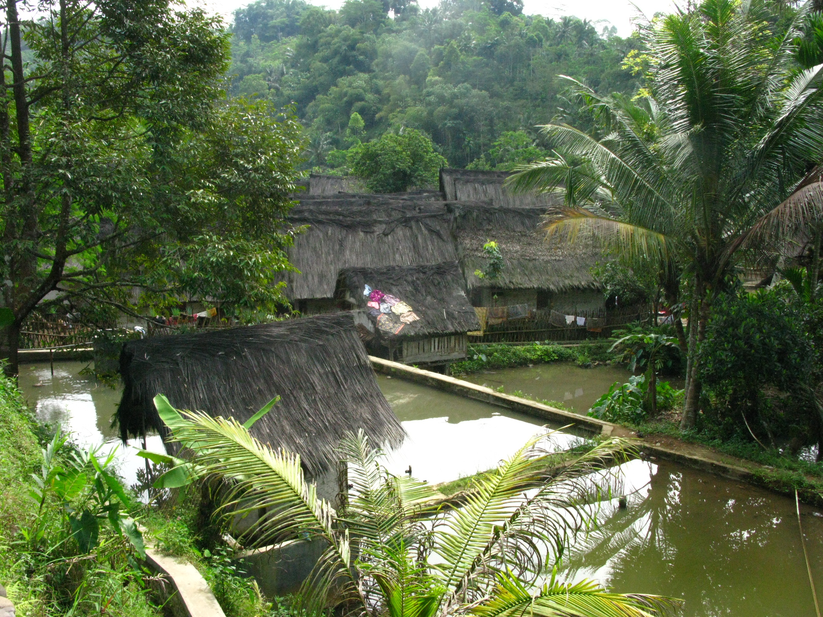 Kampung Naga village - Tasikmalaya, Indonesia